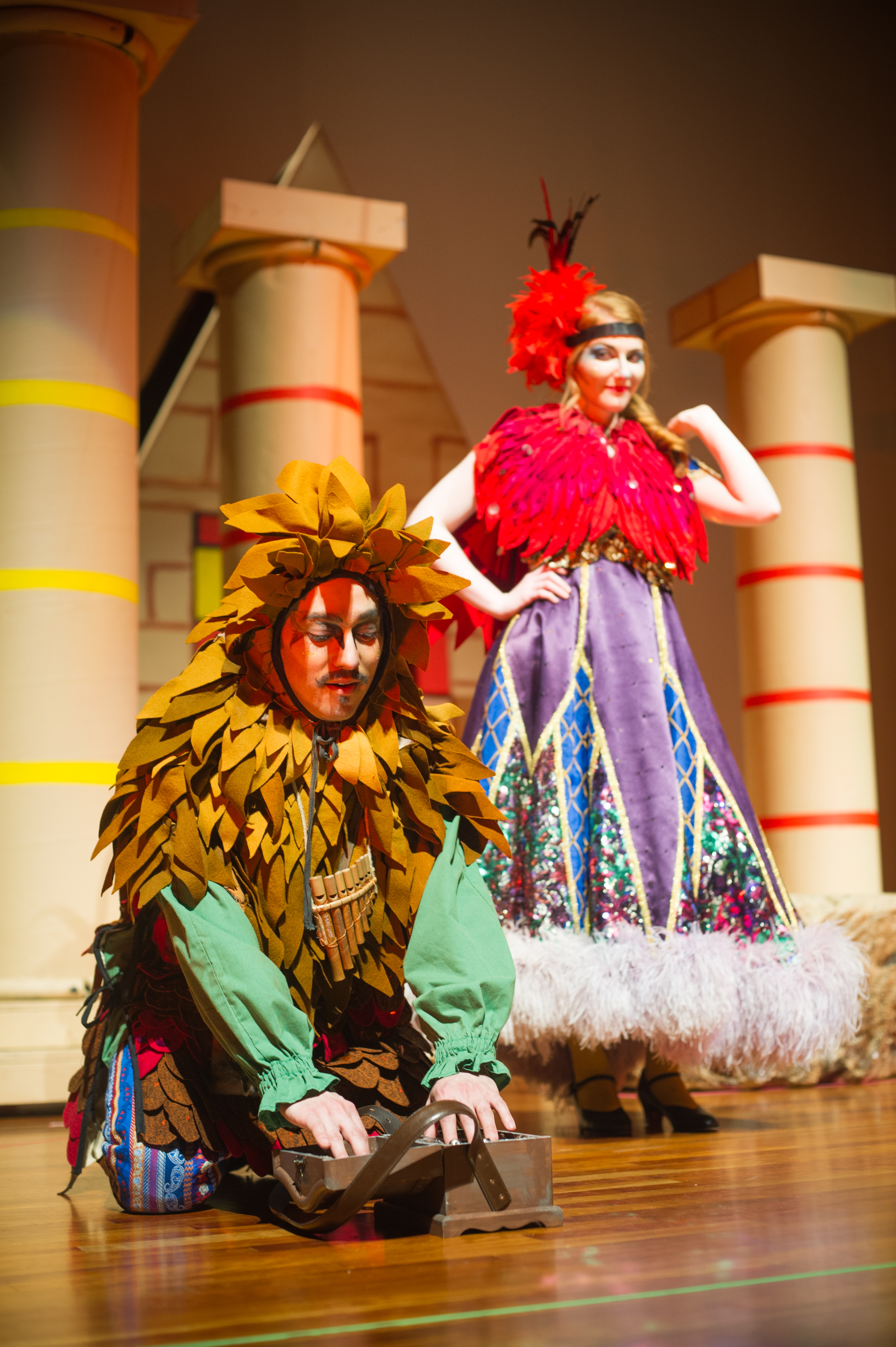 15031-Magic Flute Production-0437 Magic Flute production at Texas A&M University–Commerce